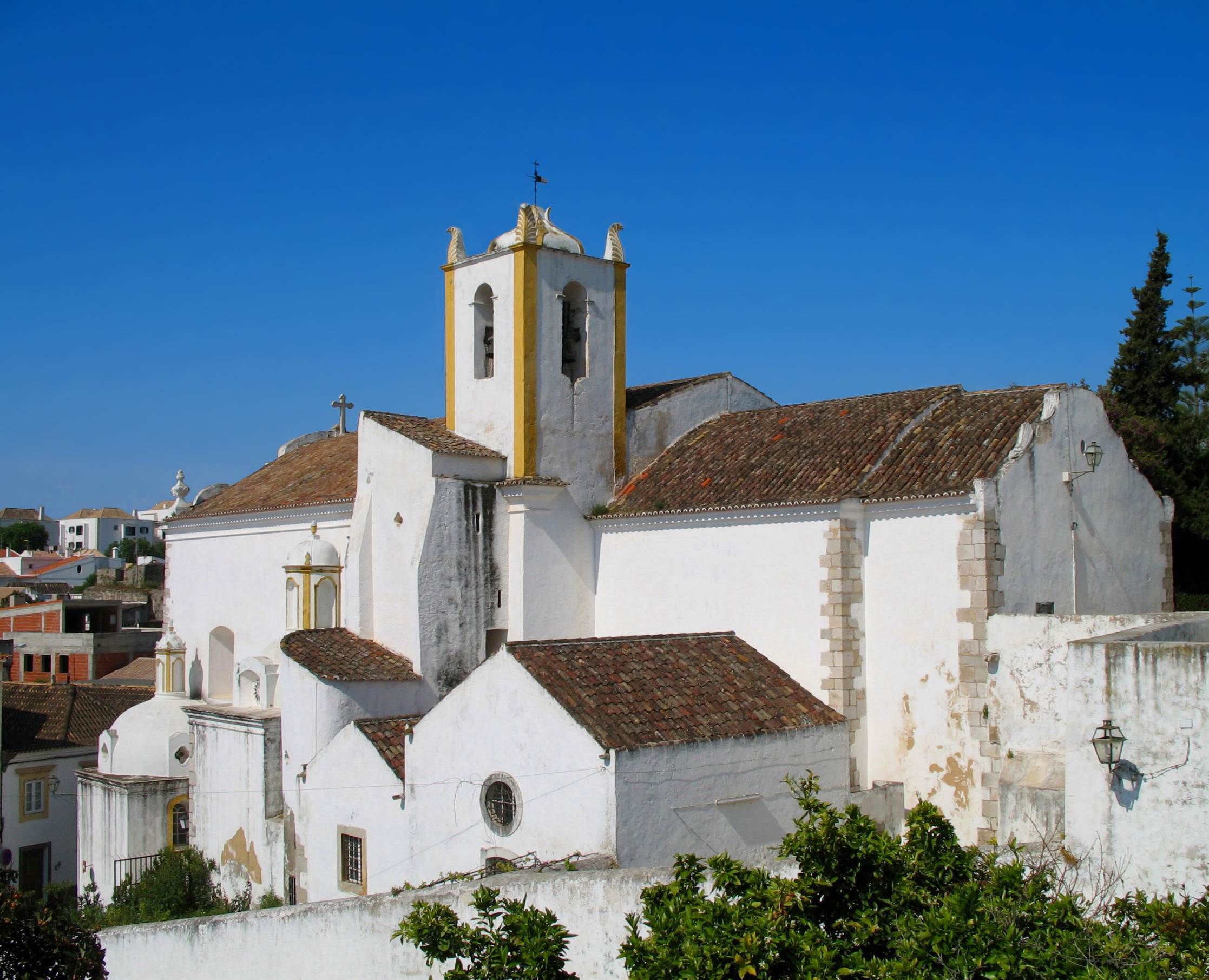 Tavira (Algarve, Portugal): Saint James (Santiago) church